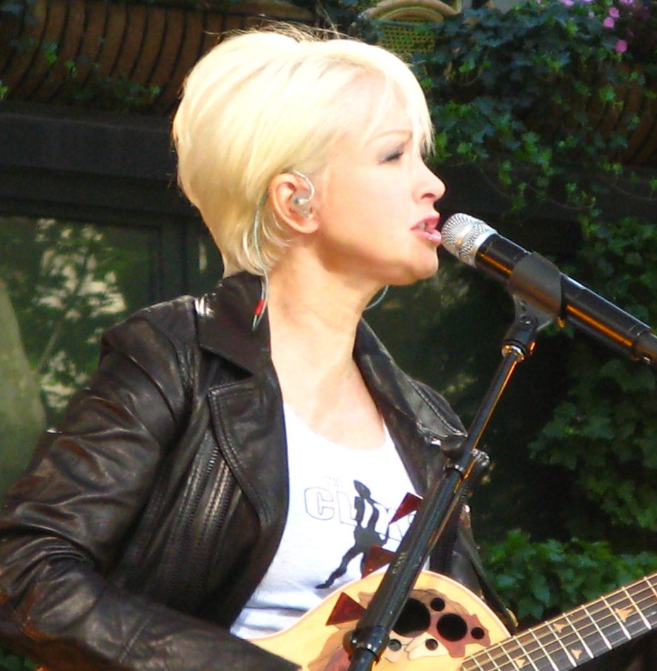 Summer Concert Series